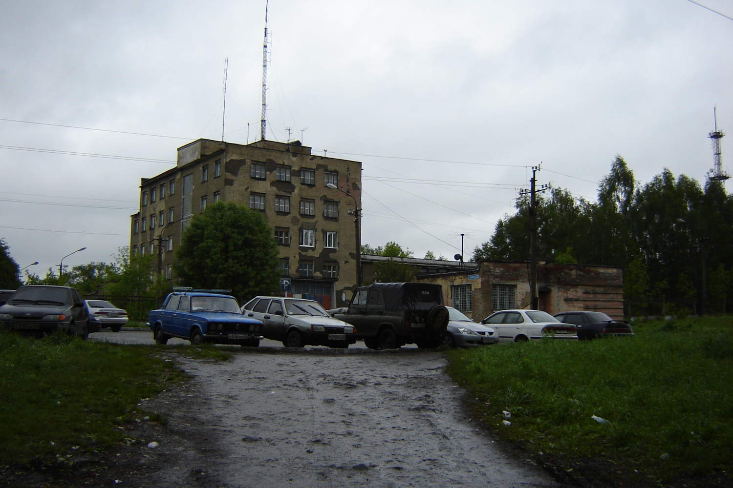 Novokuznetsk psychiatric hospital №12